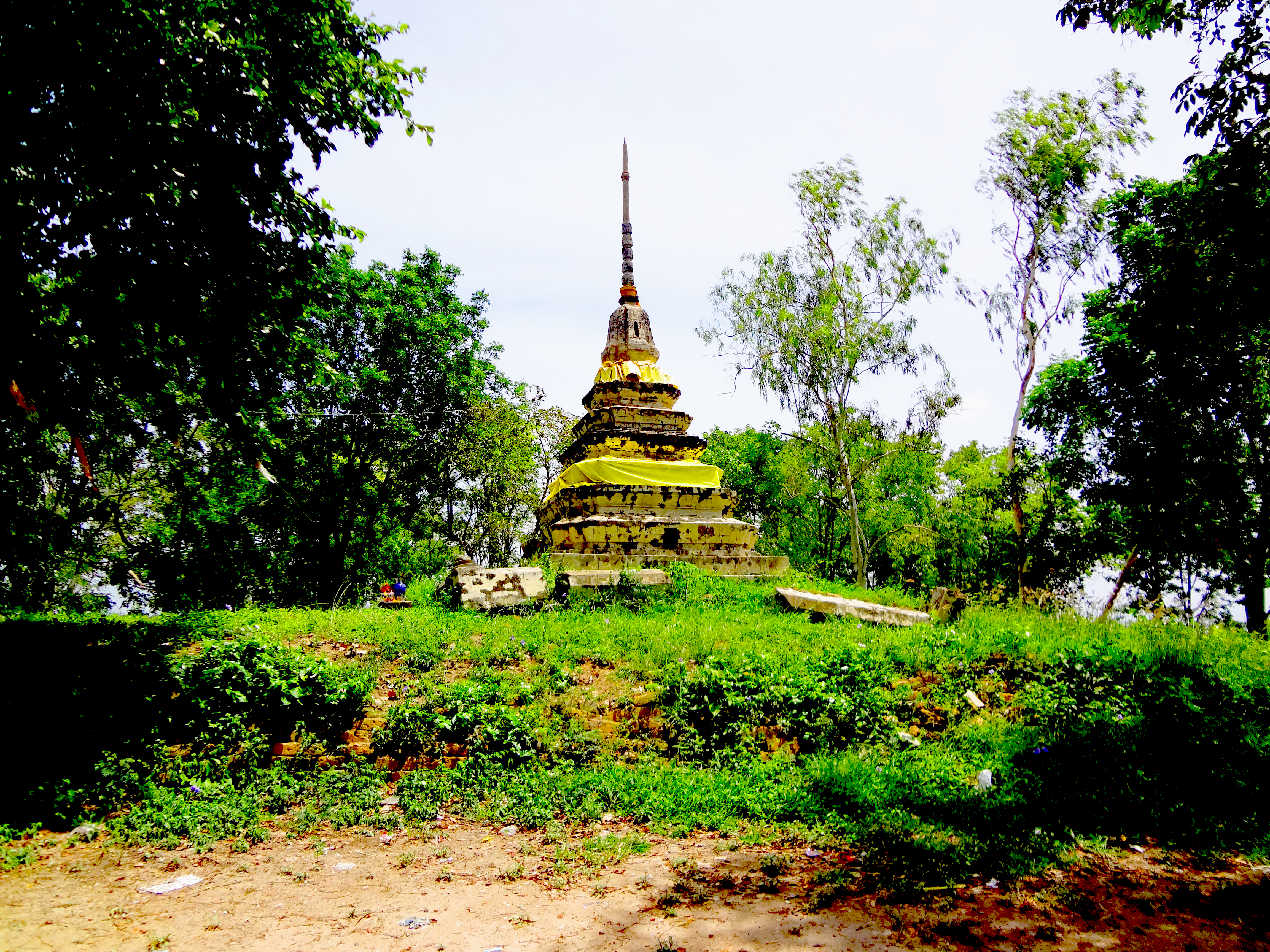 Phra That Mueang Pha Rot, Na Phra That Subdistrict, Phanat Nikhom District, Chon Buri Province